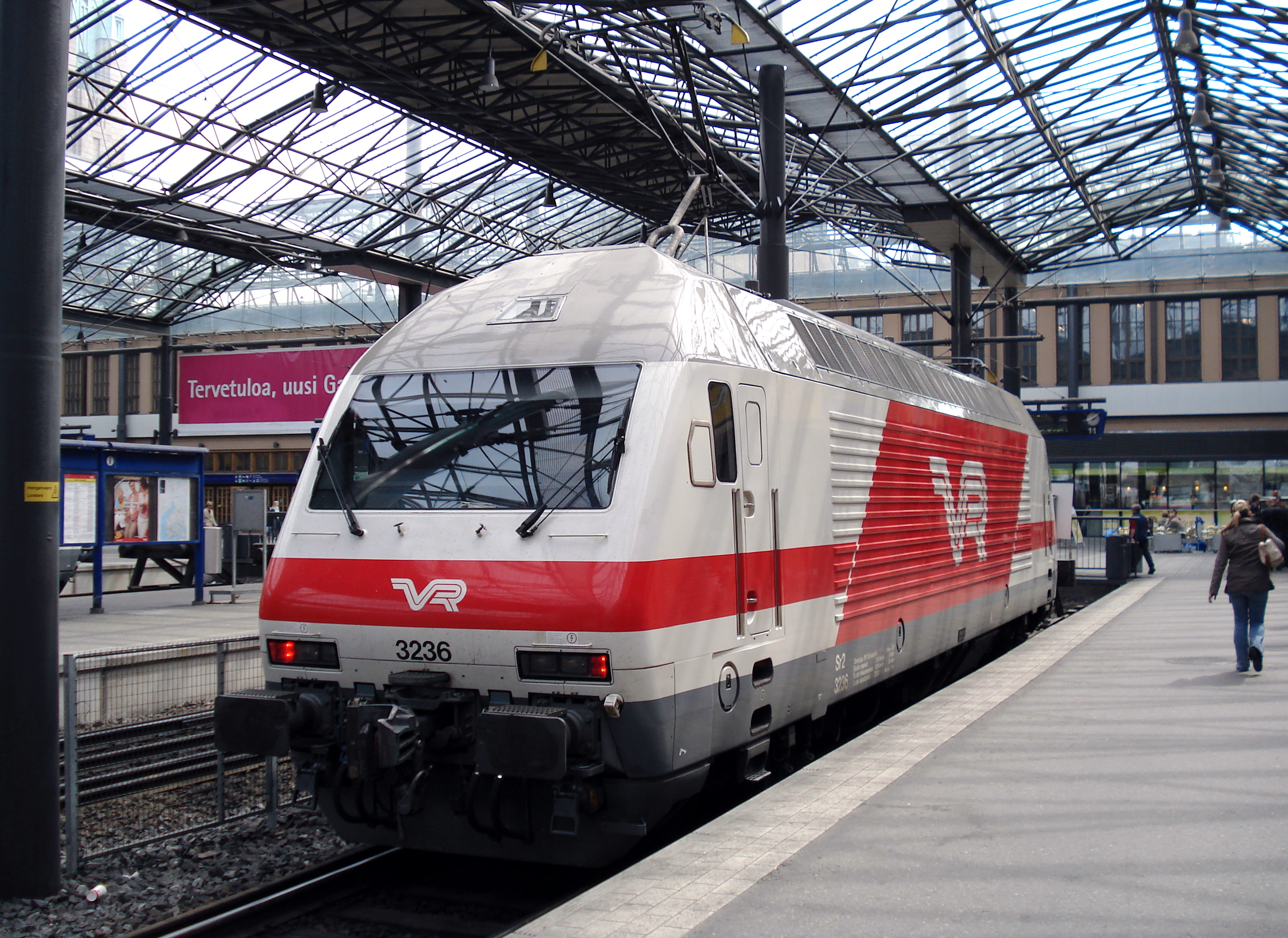 Electric locomotive of Finnish Railways in Helsinki, Finland